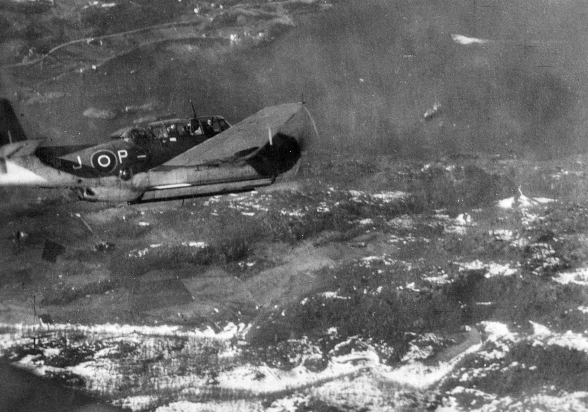 A Royal Navy Grumman Avenger Mk.I from 846 Naval Air Squadron in flight with an open bomb bay. 846 NAS was assigned to the escort carrier HMS Trumpeter (D09) in 1944-1945 and mainly operated around Norway.